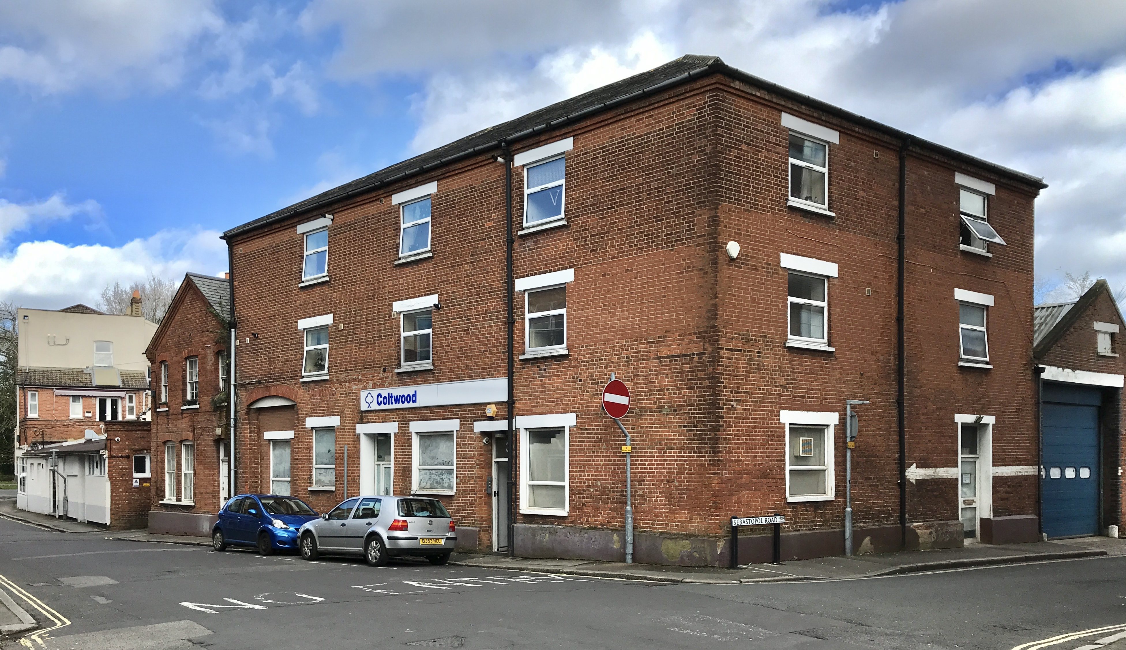 Section of Pickford Street in Aldershot in 2020. Here in 1863 Valentine Bambrick VC was involved in an alleged theft that would see him imprisoned and dead by suicide